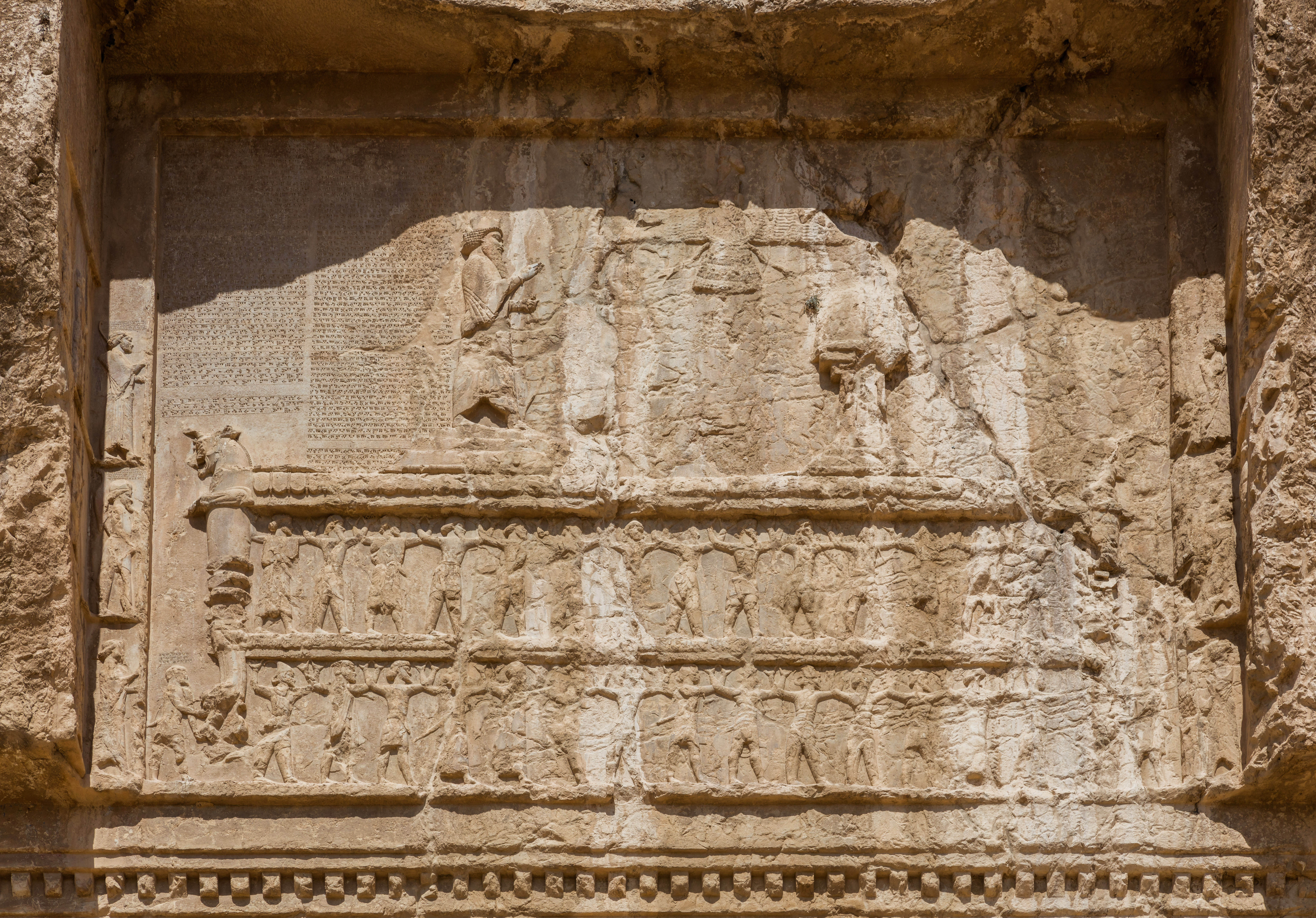 Naghsh-e rostam, Iran